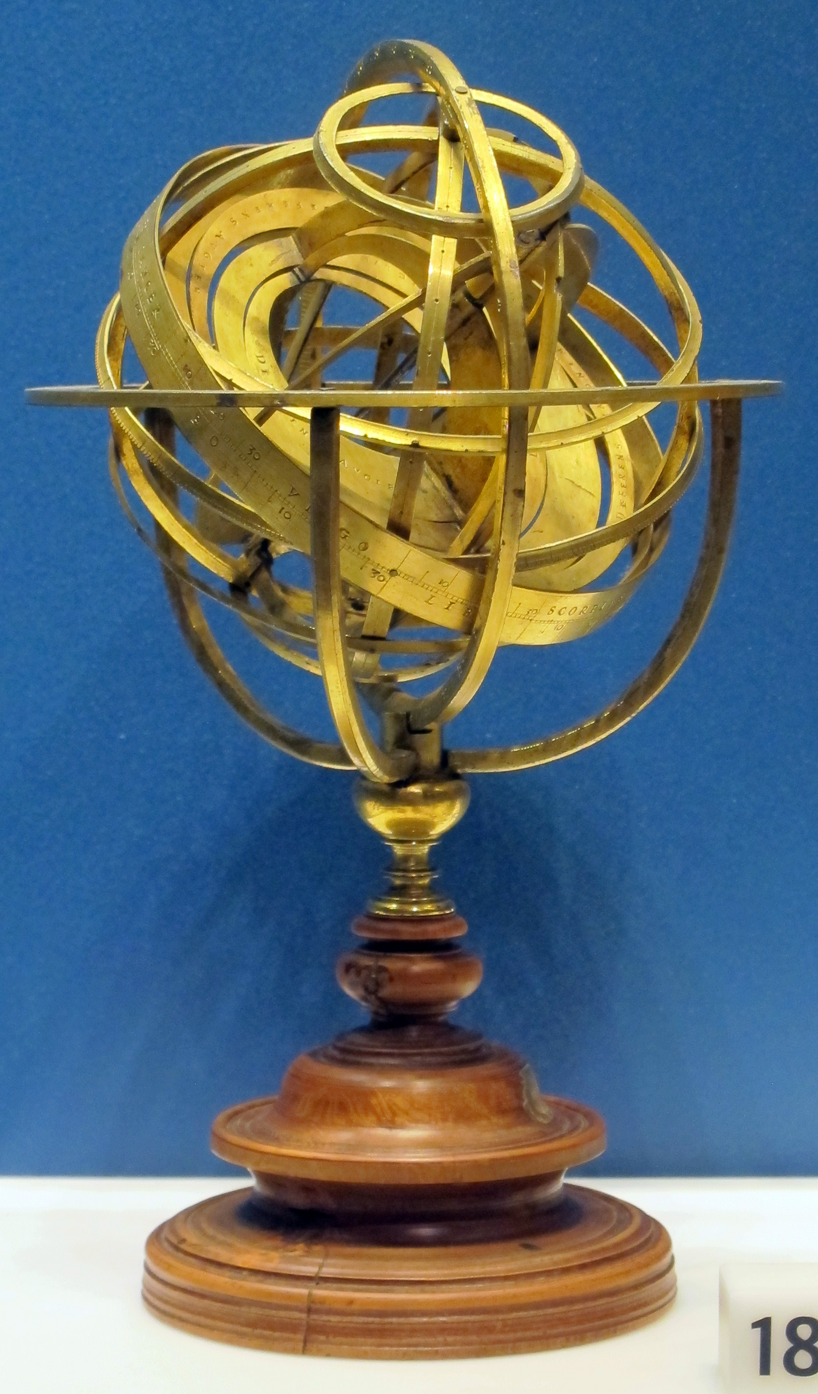 Model of the lunar orb